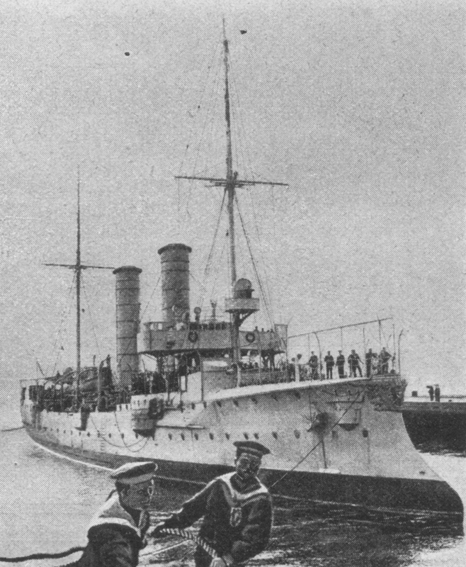 The German cruiser SMS Niobe (launched 1899).